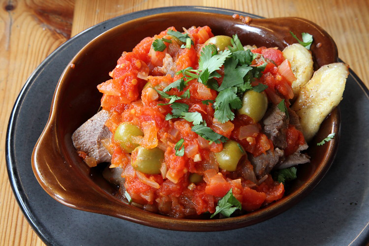 Lengua a la veracruzana en una fonda de Ciudad de México